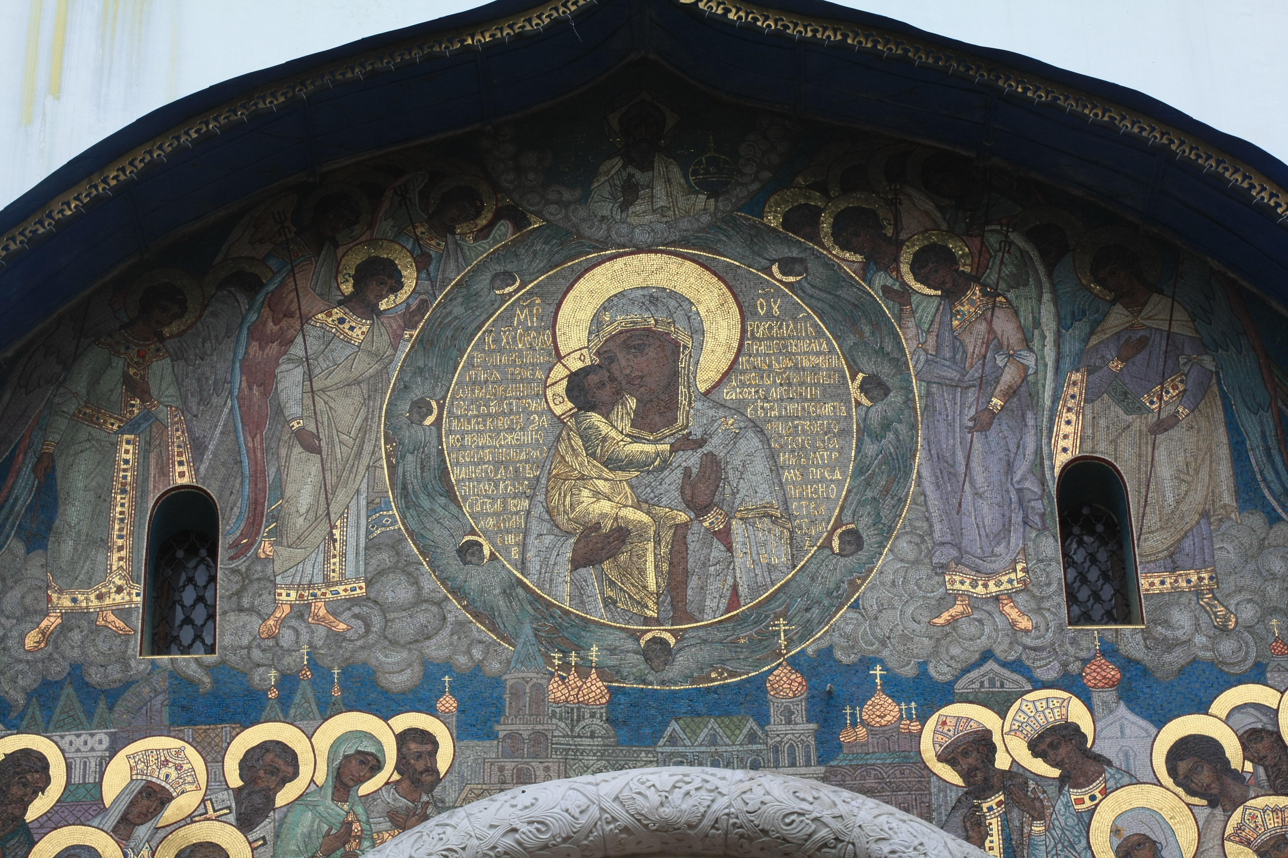 Feodorovsky Cathedral in Tsarskoye Selo, western side mosaic